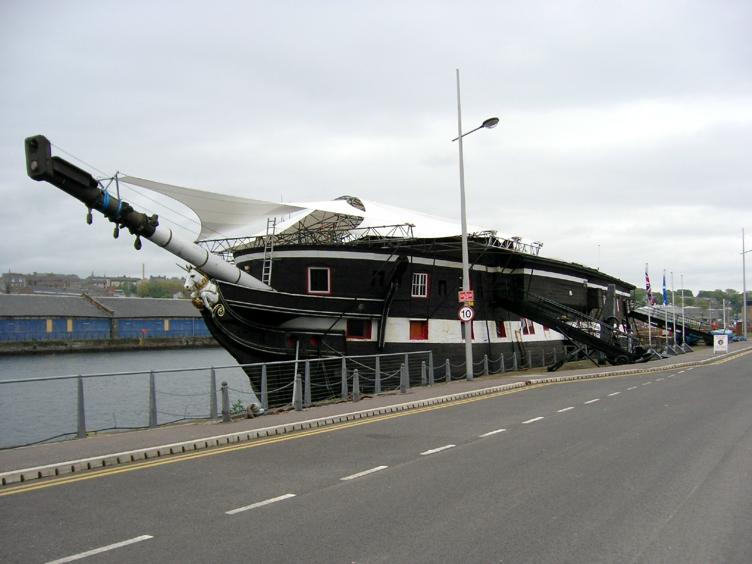 HMS Frigate Unicorn in Victoria dock, dundee